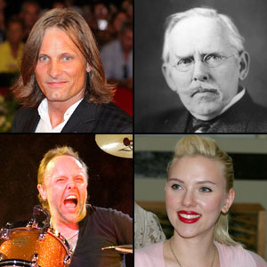 A collage for use on Danish American. It is made using (portions of) the following commons-media: Viggo Mortensen - 66th Venice International Film Festival, 2009.jpg Jacob Riis 2.jpg Lars London 2008 crop.jpg Scarlett Johansson 3.jpg